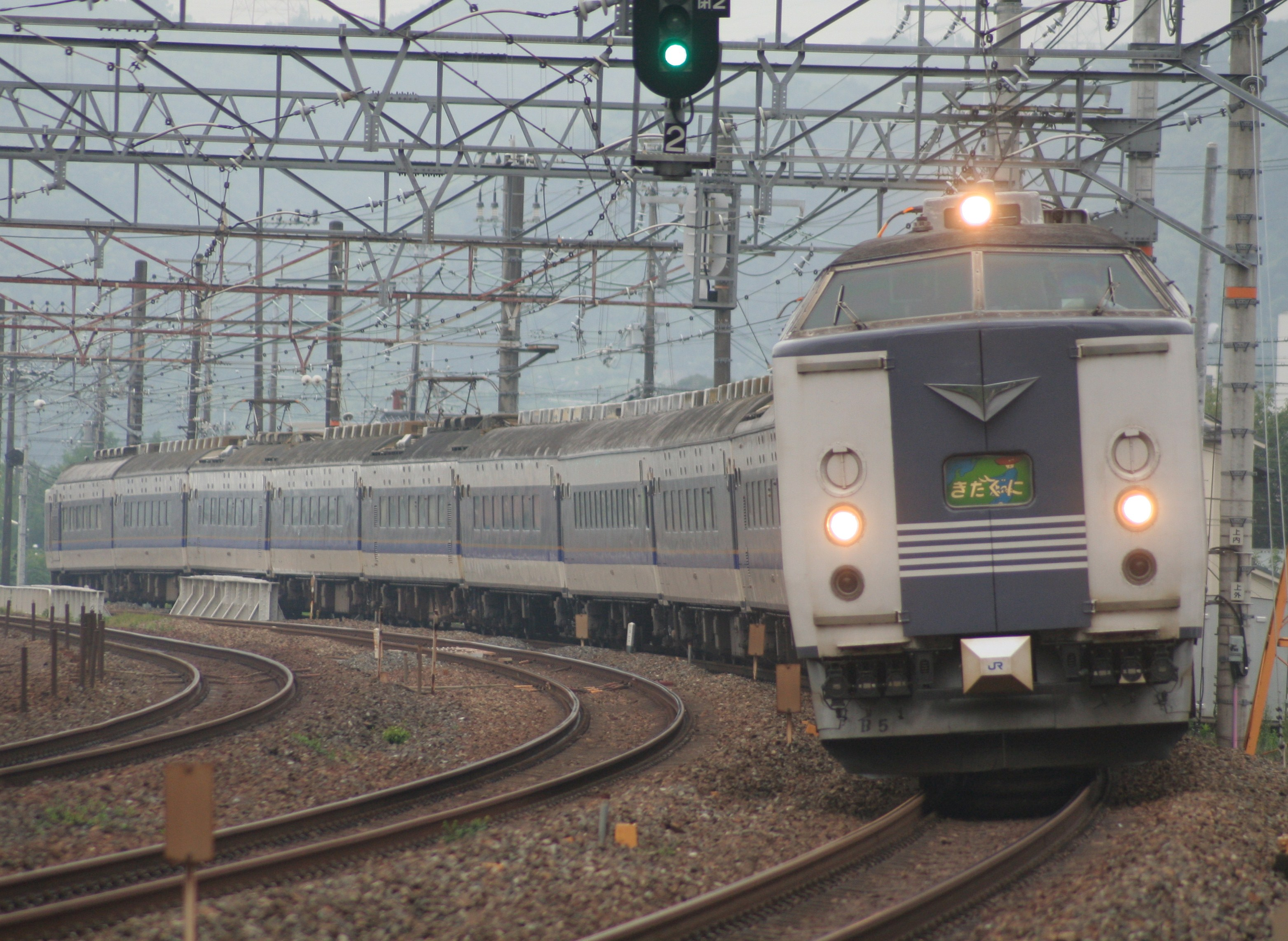 JR West 583 series EMU set B5 on a Kitaguni service empty stock working